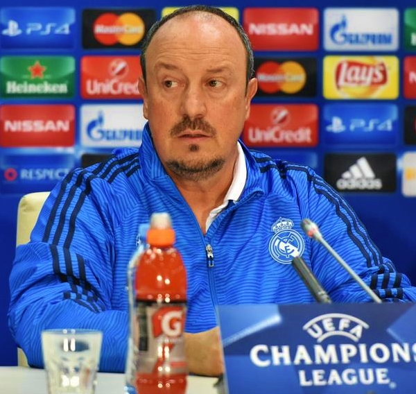 Rafael Benítez